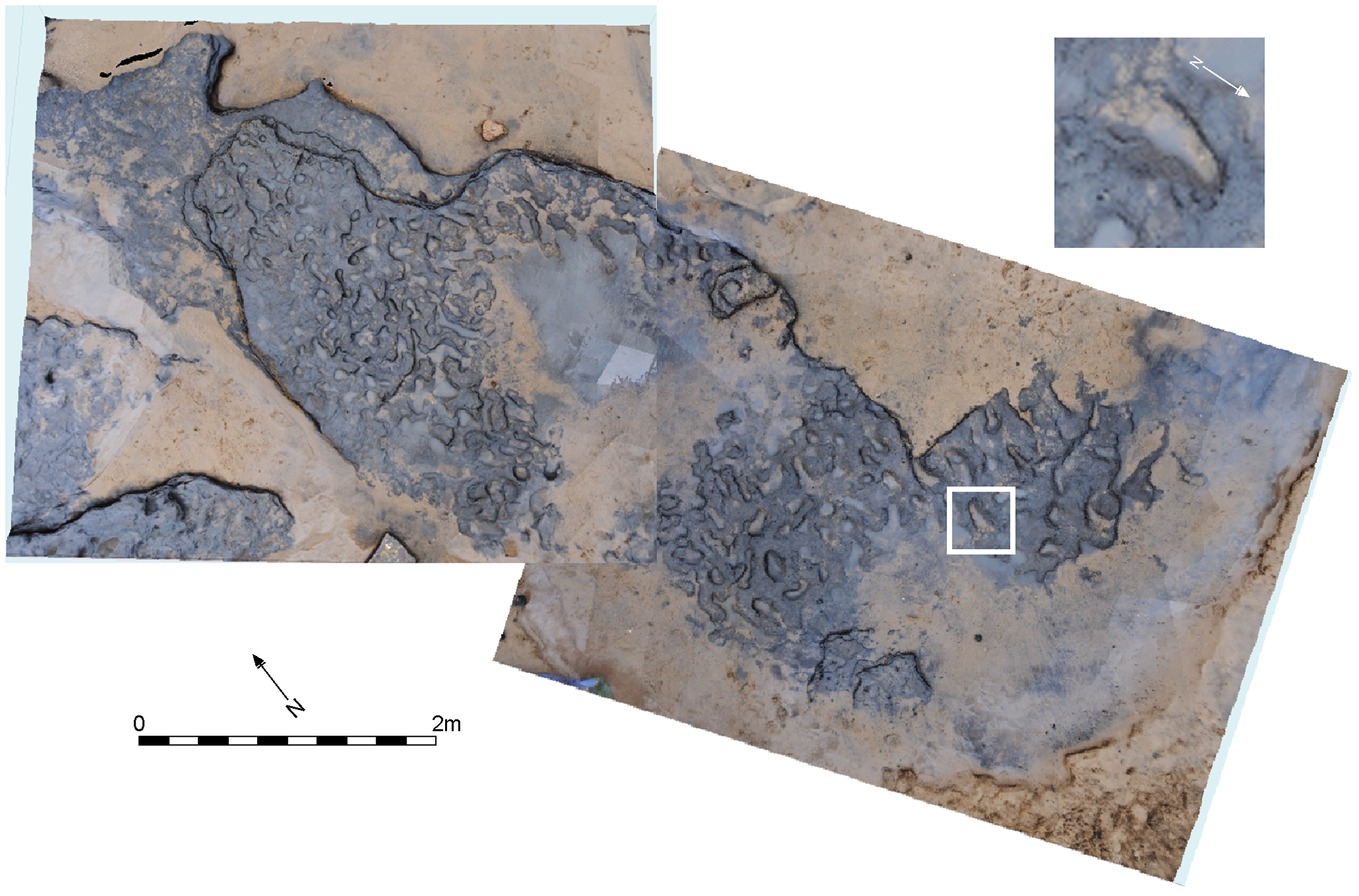 Figure 7. Vertical image of Area A at Happisburgh with model of footprint surface produced from photogrammetric survey with enlarged photo of footprint 8 showing toe impressionns.